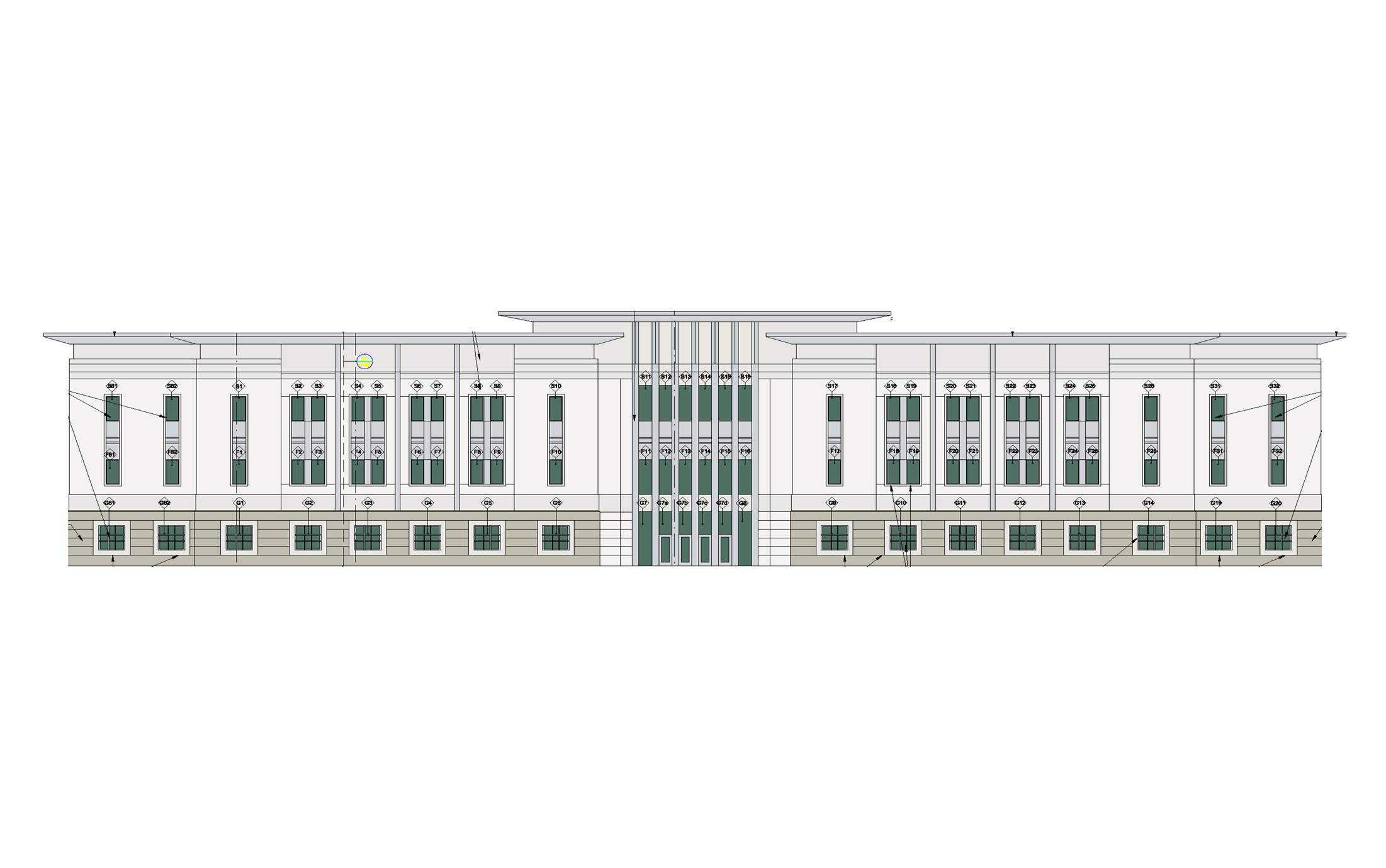 A rendering by designer CH2M Hill shows the facade of the 84-million-euro Command and Battle Center for USAREUR Headquarters at Wiesbaden.